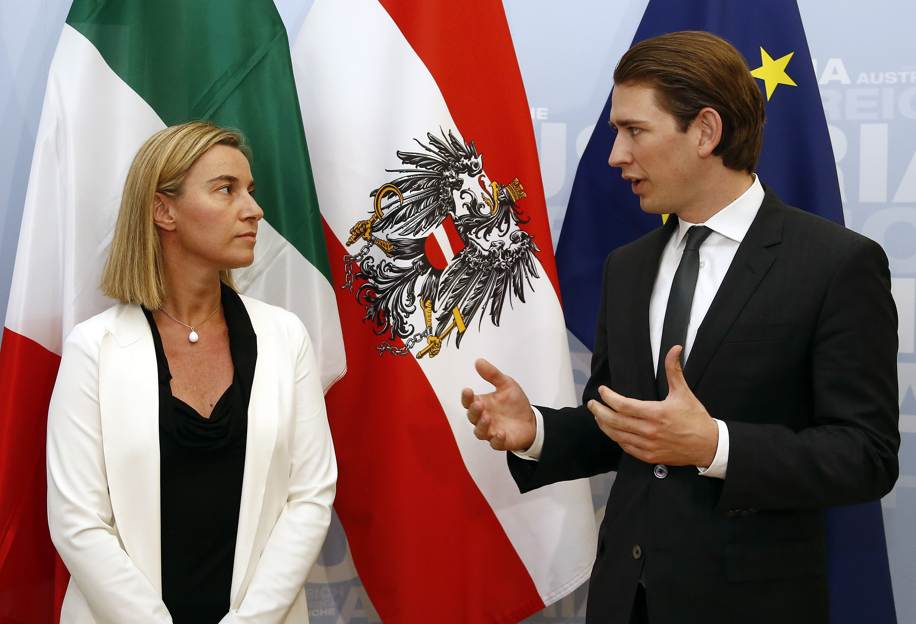 Austrian Minister of Foreign Affairs Sebastian Kurz meets with Italian Foreign Minister Federica Mogherini